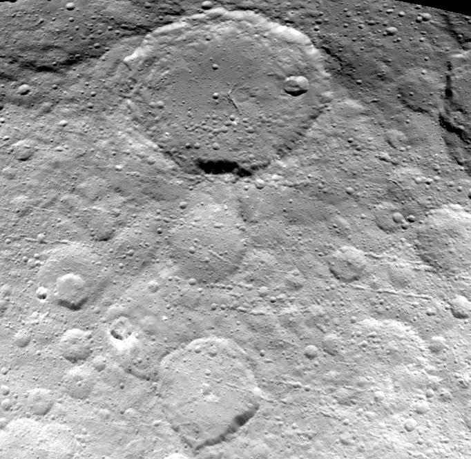 PIA19065: Dawn View from OpNav9 - EZINU Crater (top) and NAWISH Crater (bottom) This image of Ceres is part of a sequence taken by NASA's Dawn spacecraft on May 23, 2015, from a distance of 3,200 miles (5,100 kilometers). Resolution in the image is about 1,600 feet (480 meters) per pixel. The view shows numerous secondary craters, formed by the re-impact of debris strewn from larger impact sites. Smaller surface details like this are becoming visible with increasing clarity as Dawn spirals lower in its campaign to map Ceres. The region shown here is located between 13 degrees and 51 degrees north latitude and 182 degrees and 228 degrees east longitude. The image has been projected onto a globe of Ceres, which accounts for the small notch of black at upper right. OpNav9 is the ninth and final set of Dawn images of Ceres taken primarily for navigation purposes. Dawn's mission is managed by JPL for NASA's Science Mission Directorate in Washington. Dawn is a project of the directorate's Discovery Program, managed by NASA's Marshall Space Flight Center in Huntsville, Alabama. UCLA is responsible for overall Dawn mission science. Orbital ATK, Inc., in Dulles, Virginia, designed and built the spacecraft. The German Aerospace Center, the Max Planck Institute for Solar System Research, the Italian Space Agency and the Italian National Astrophysical Institute are international partners on the mission team. For a complete list of acknowledgments, For more information about the Dawn mission, visit